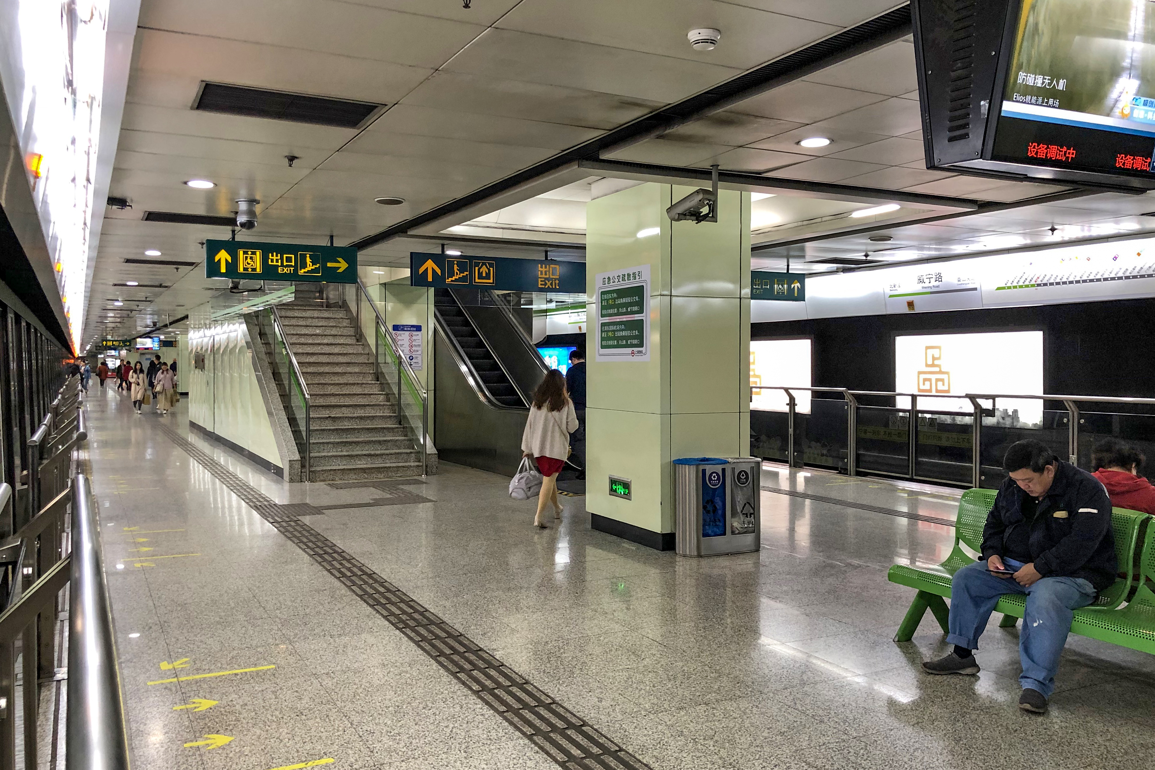 Caohai in CR perspective.